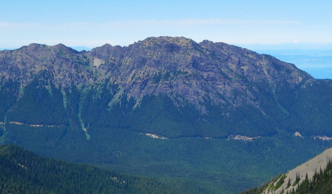 Rocky Peak seen from Eagle Point on Hurricane Ridge, Olympic National Park.